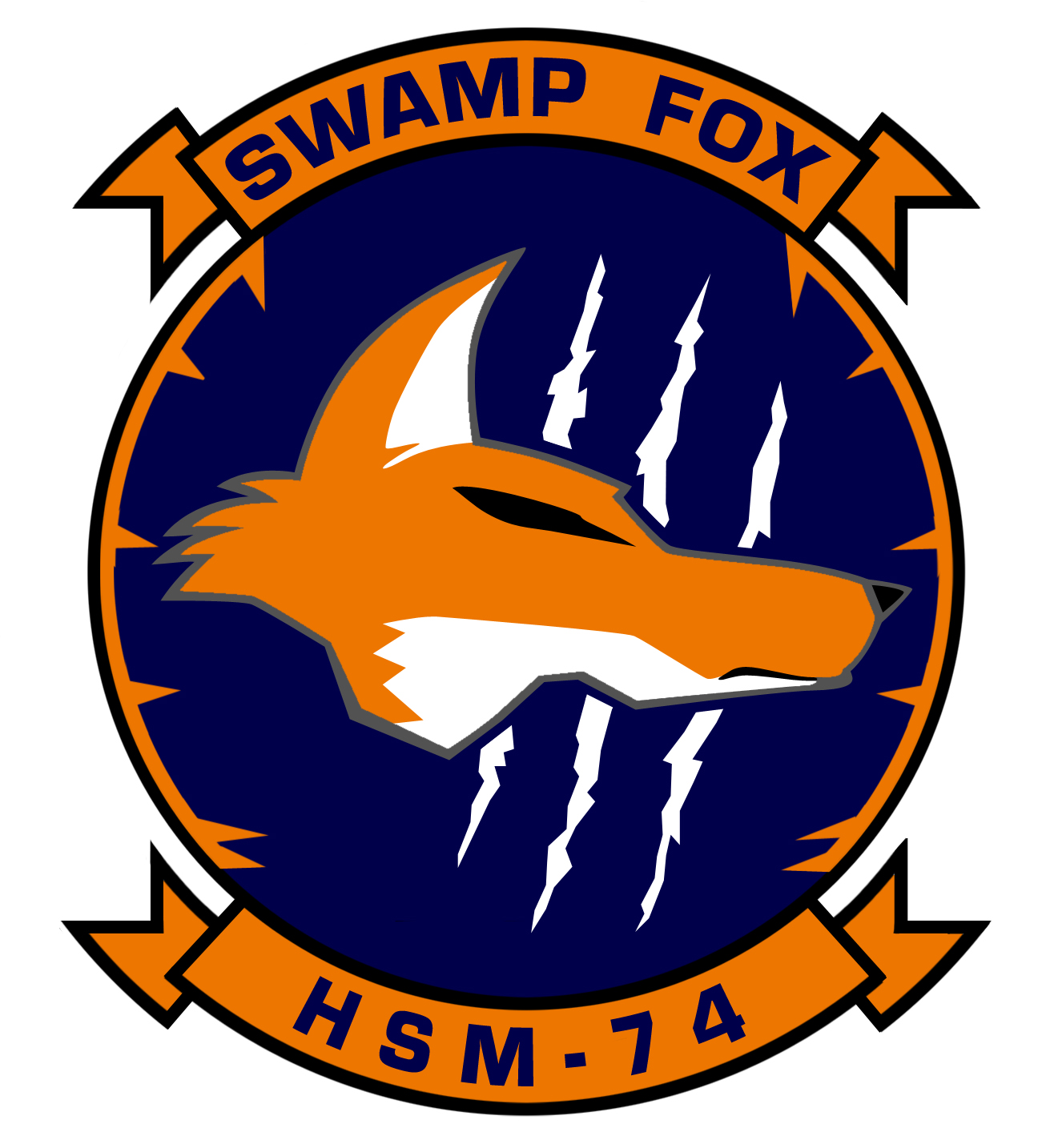 Official logo for HSM-74